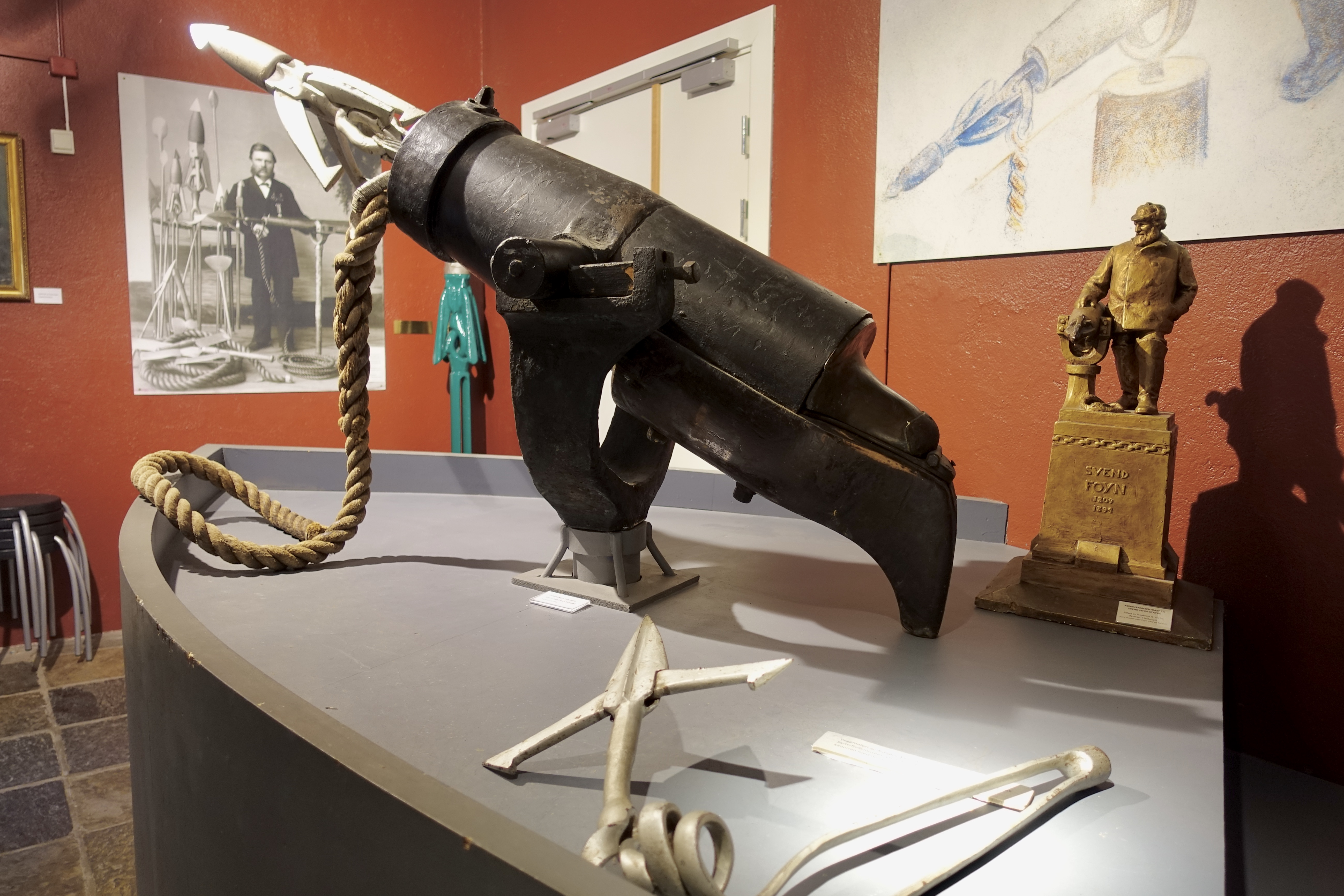 A whaling harpoon cannon used by Svend Foyn 1870, etc. From the exhibition on Svend Foyn (1809–1894), a Norwegian whaling pioneer introducing the modern harpoon cannon in 1870, at the Slottsfjellsmuseet, a local history museum in Tønsberg in Vestfold og Telemark County, Norway. Photo taken on January 21st, 2020.